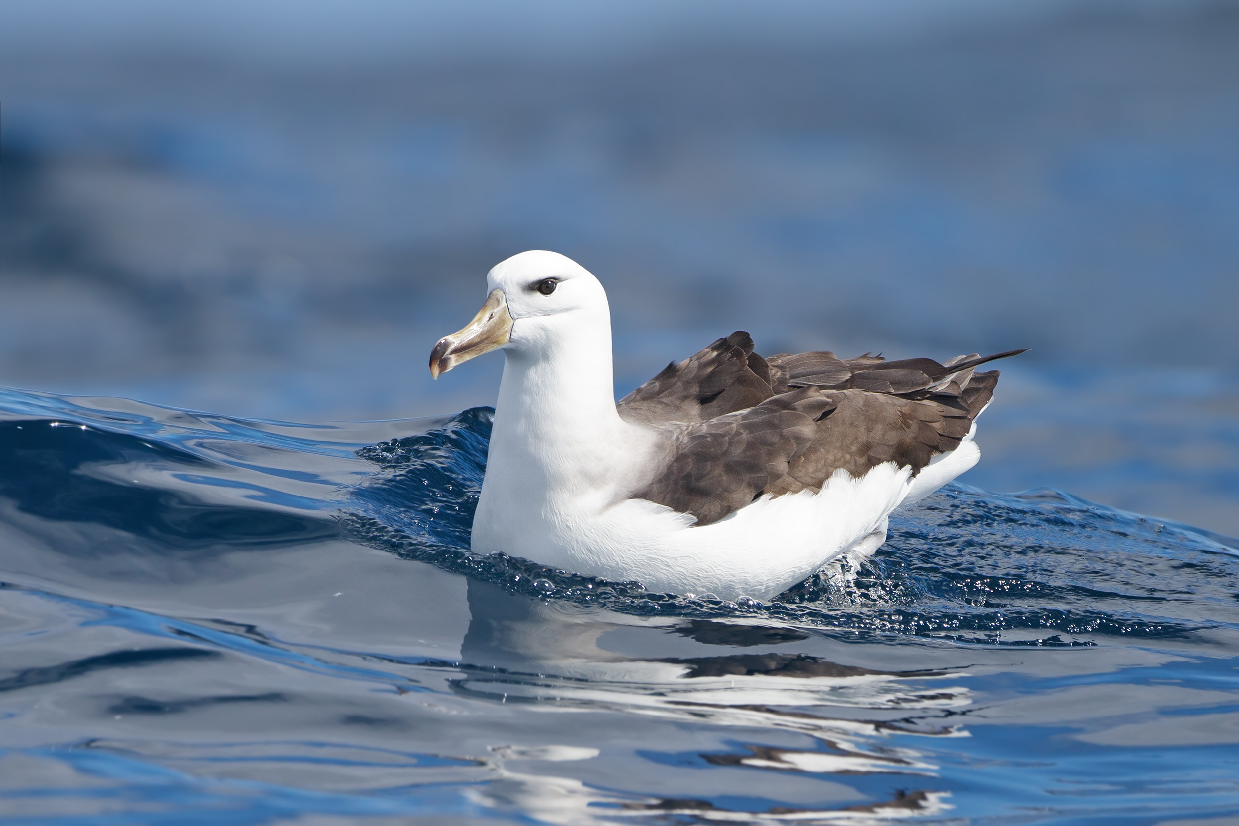 Black-browed Albatross (Thalassarche melanophrys), subadult plumage, East of the Tasman Peninsula, Tasmania, Australia